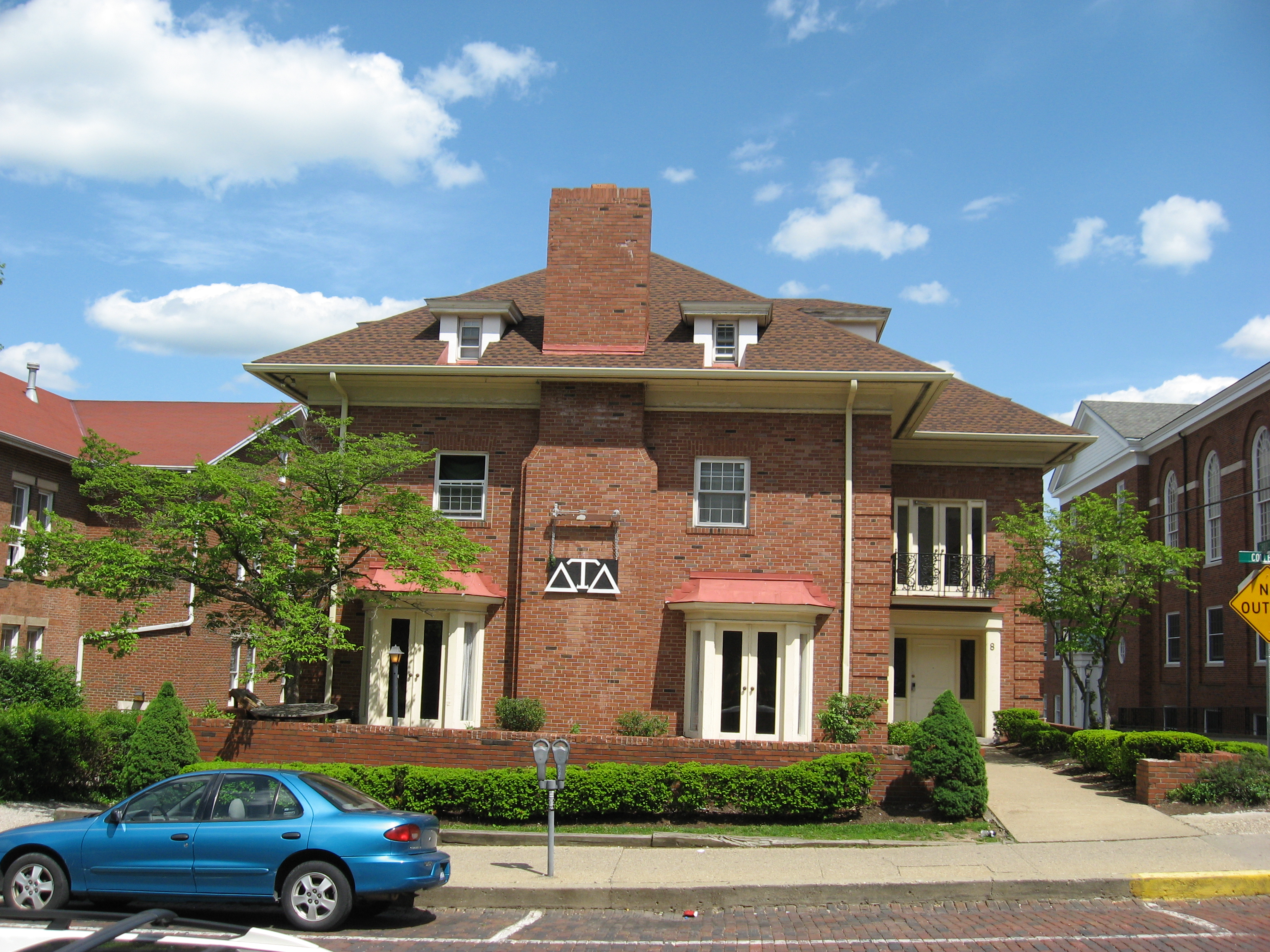 Delta Tau Delta Fraternity House at Ohio University (Athens, USA)